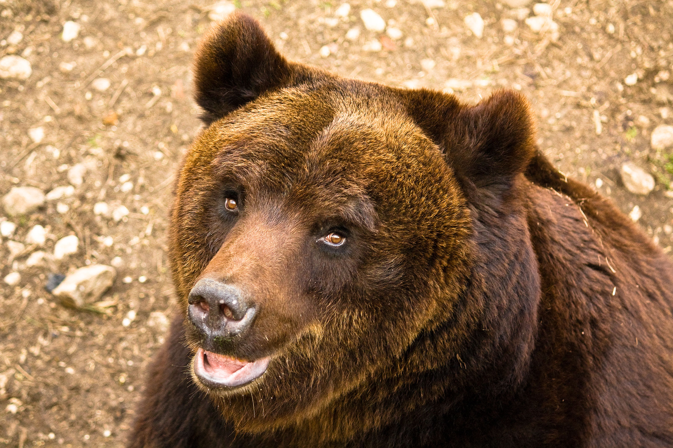 Close-up of a marsican brown bear (named Sandrino)